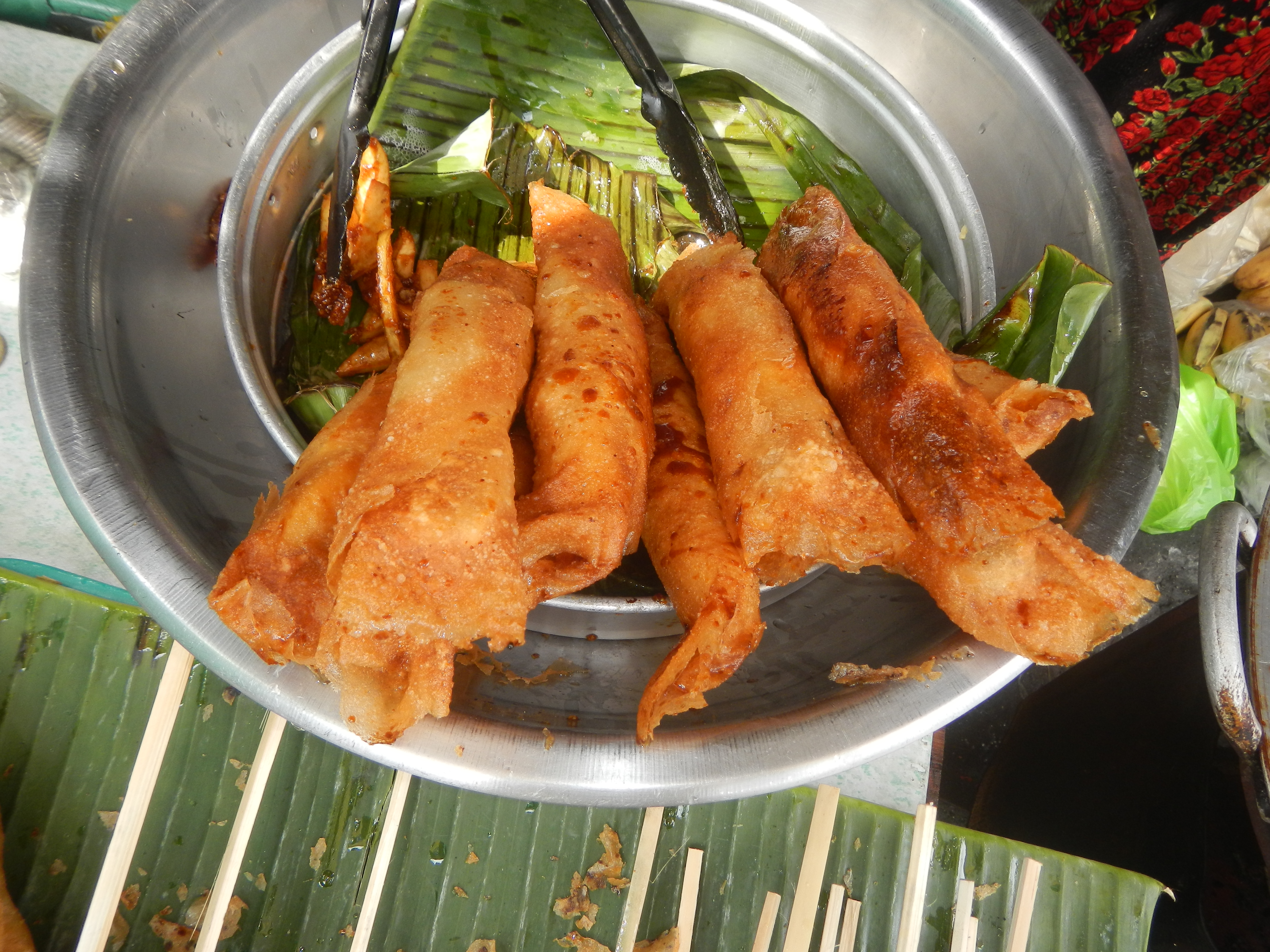 Philippine cuisine List of Philippine dishes Halo-halo Fish balls Nata de coco Sago Pinipig Longaniza Lumpia wrapper Banana cue Camote cue Turon (food) in Sitio Santissima, Poblacion Public market Barangay Poblacion 14°57'17"N 120°54'2"E, Baliuag, Bulacan, Bulacan province (Note: Judge Florentino Floro, the owner, to repeat, Donor Florentino Floro of all these photos hereby donate gratuitously, freely and unconditionally all these photos to and for Wikimedia Commons, exclusively, for public use of the public domain, and again without any condition whatsoever).